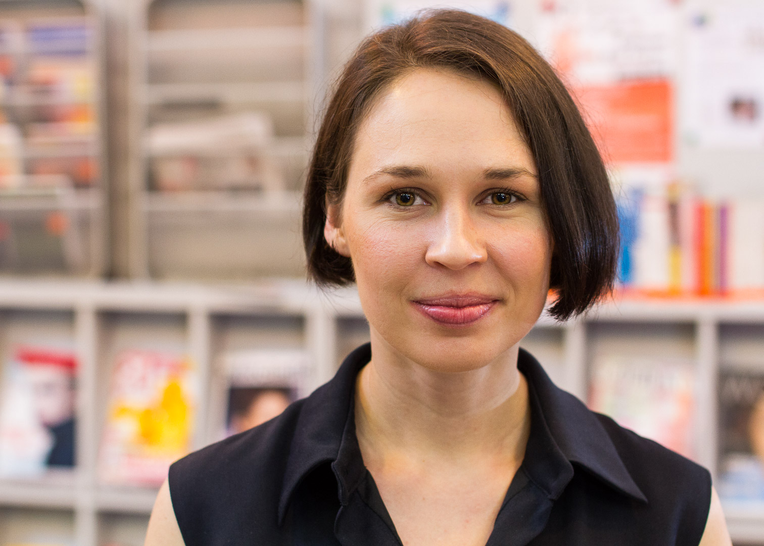 Sofia Andrukhovych on Authors’ Reading Month 2015, Wrocław, Poland